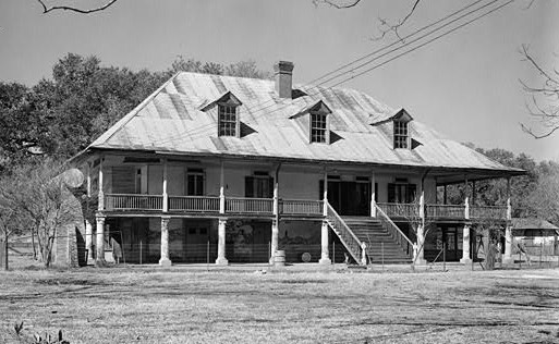 Homeplace Plantation, River Road, Hahnville (St. Charles Parish, Louisiana) (cropped)